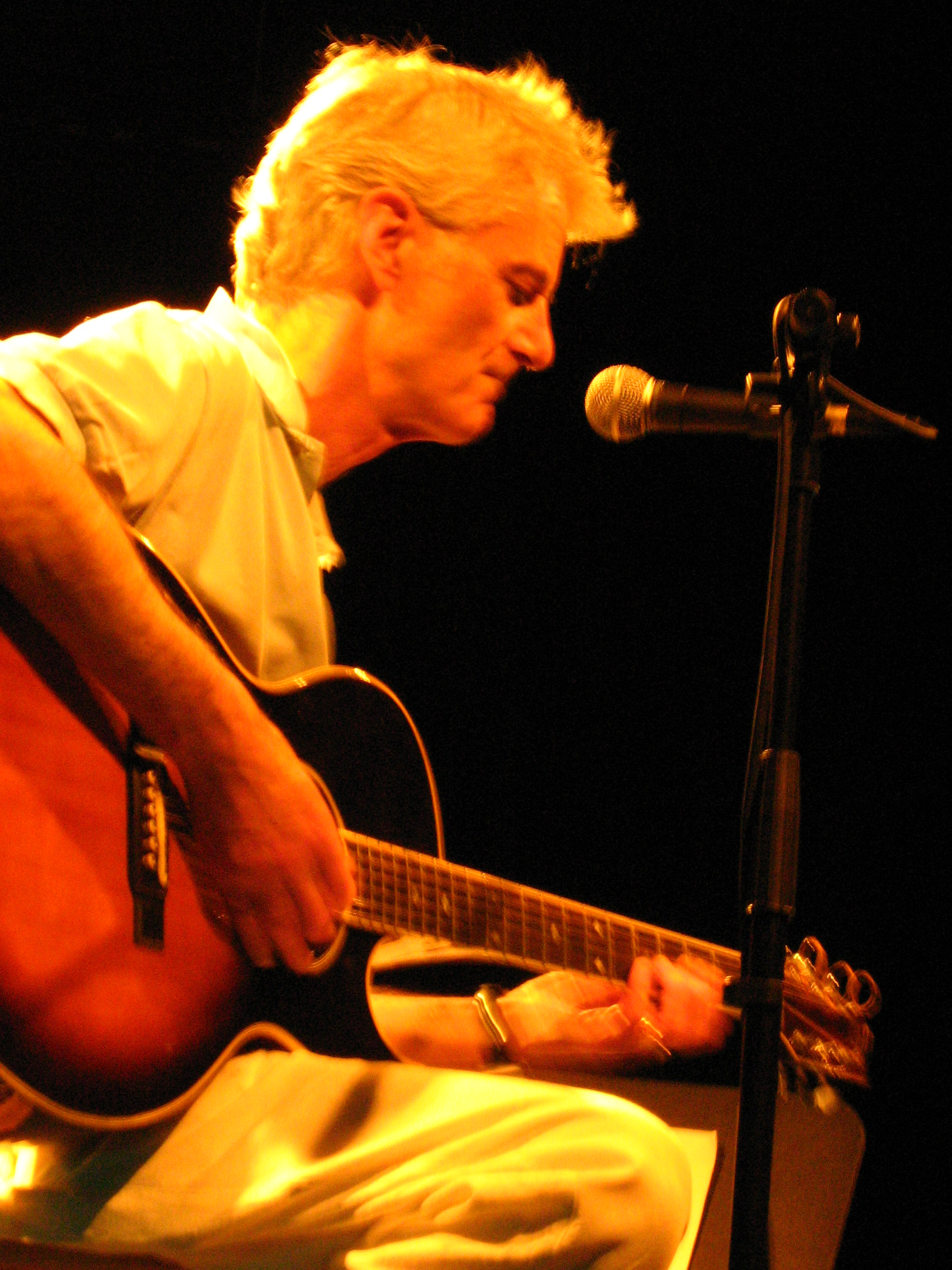 Peter Hammill performs in Tel Aviv